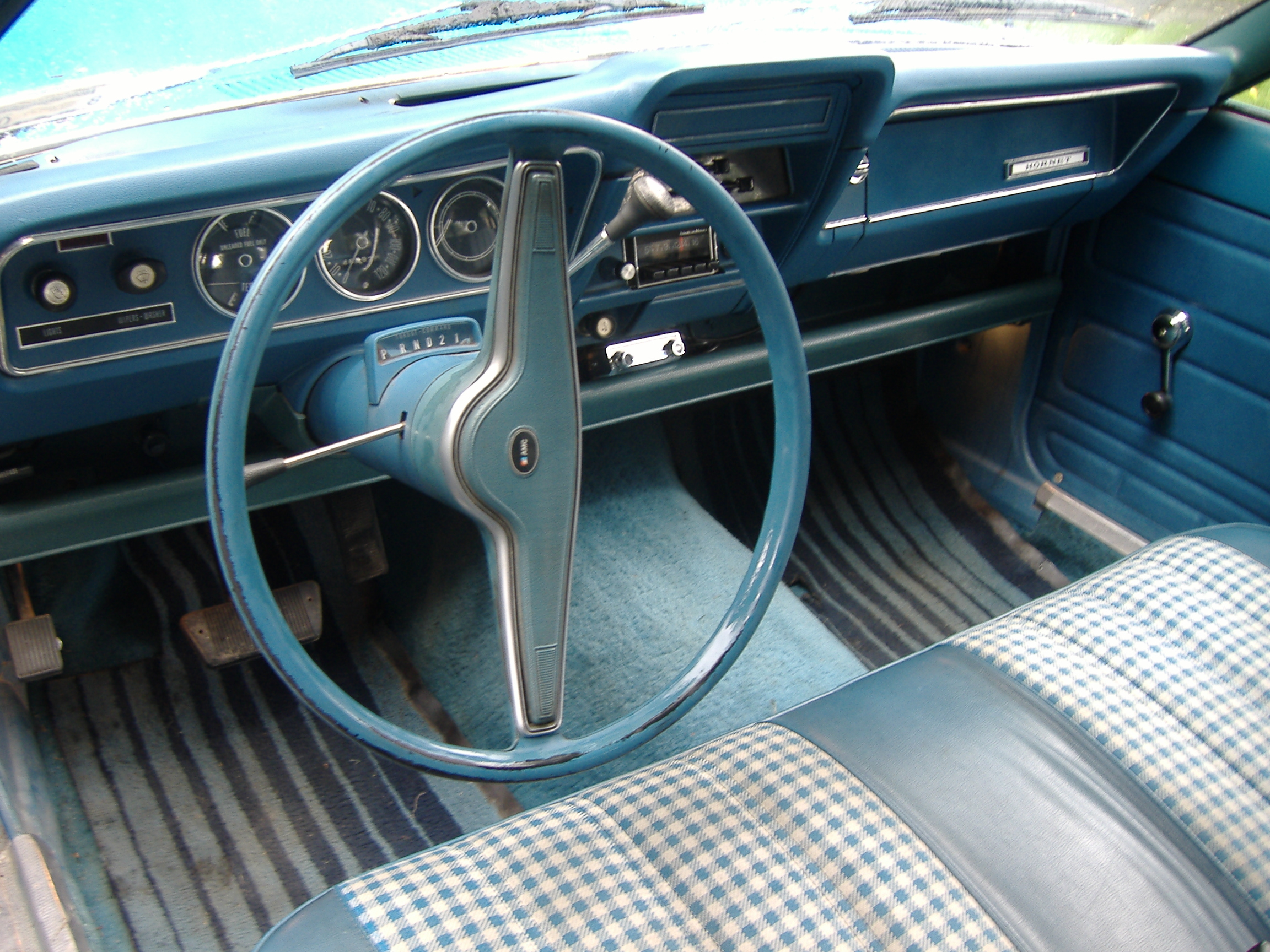 A 1975 AMC Hornet dashboard.